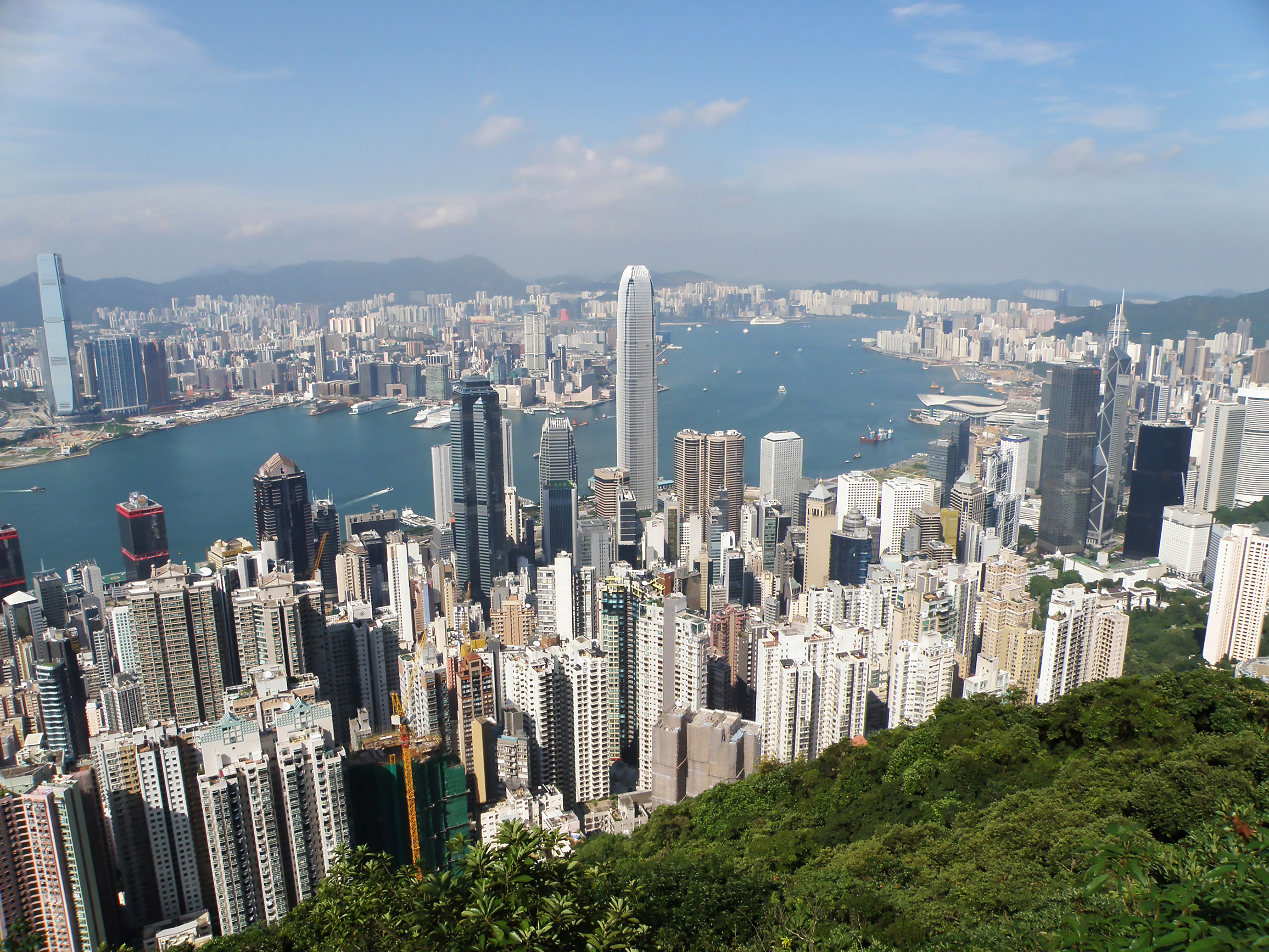 Hong Kong Island north coast, Victoria Harbour and Kowloon in Hong Kong.